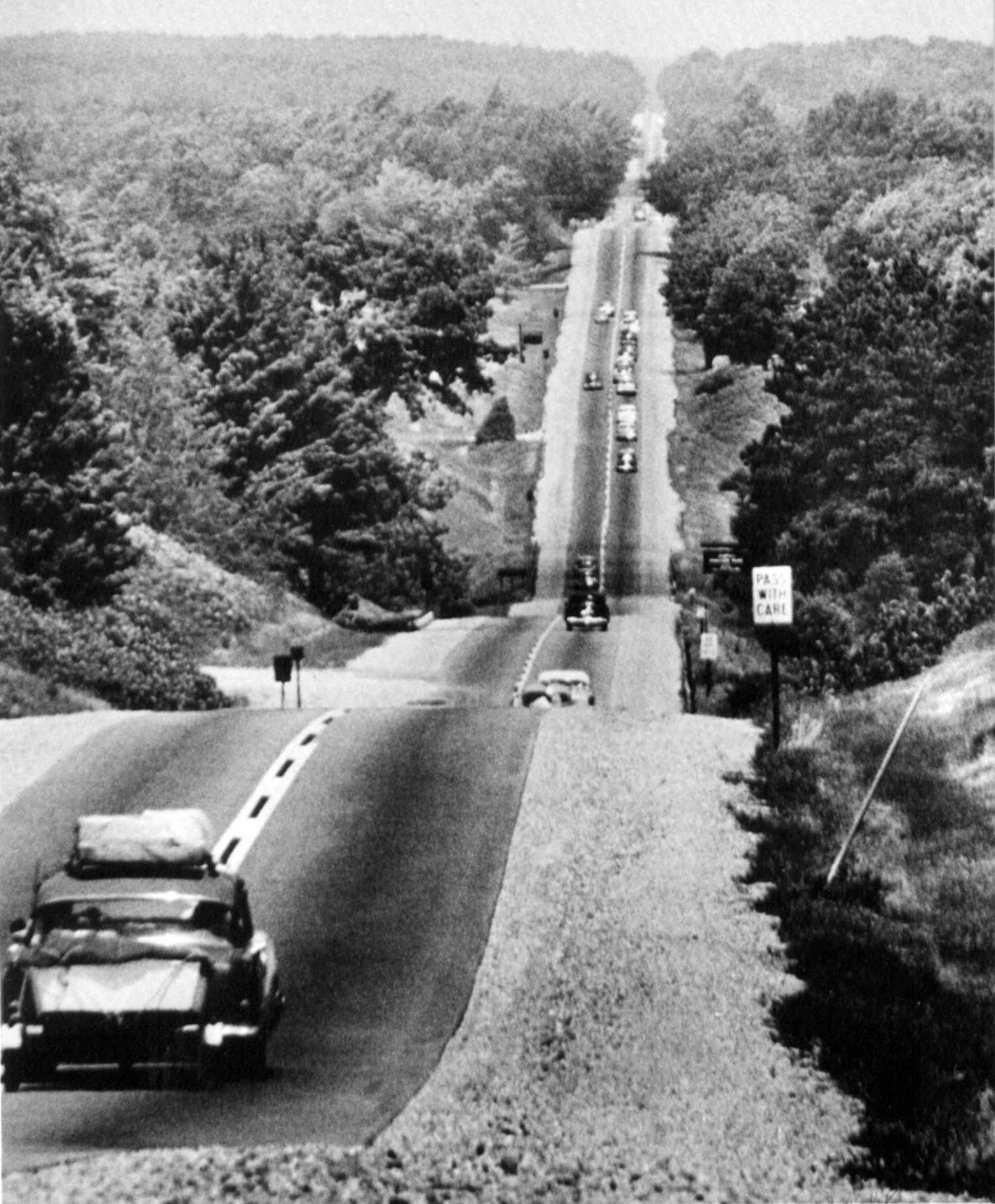 Looking northbound on U.S. Highway 27 in Clare County, Michigan. Taken in mid-1950s.